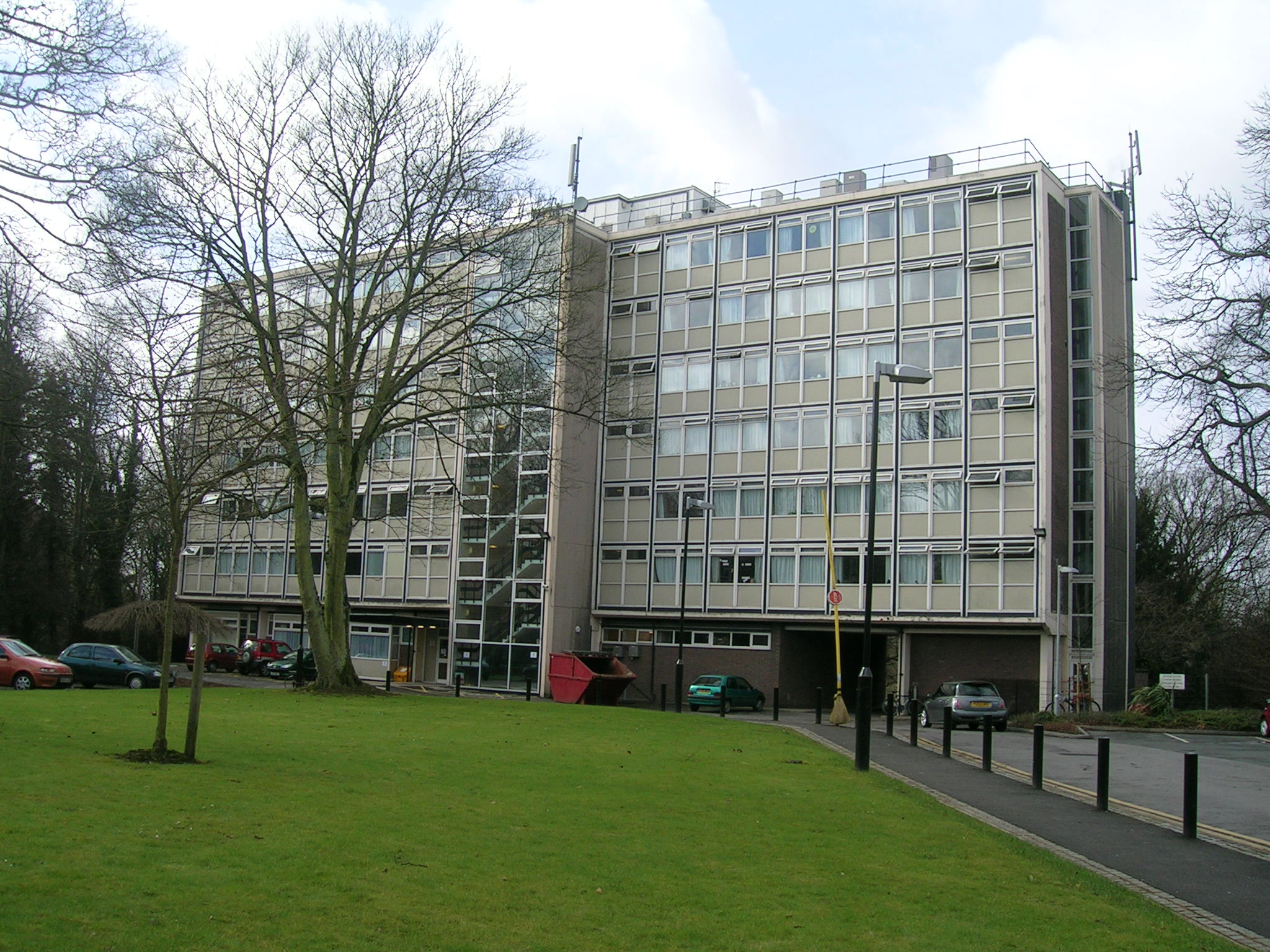 Broomhurst Halls of Residence, Didsbury. Opened in 1963, site now being redeveloped.